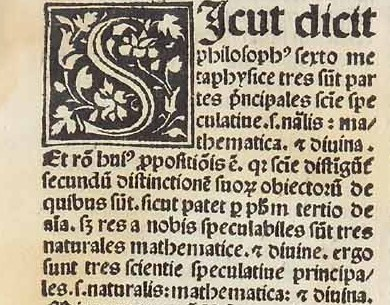 Radulpus Brito - On the old logic